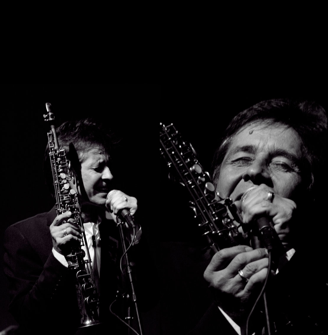 Steven Brown (Tuxedomoon)